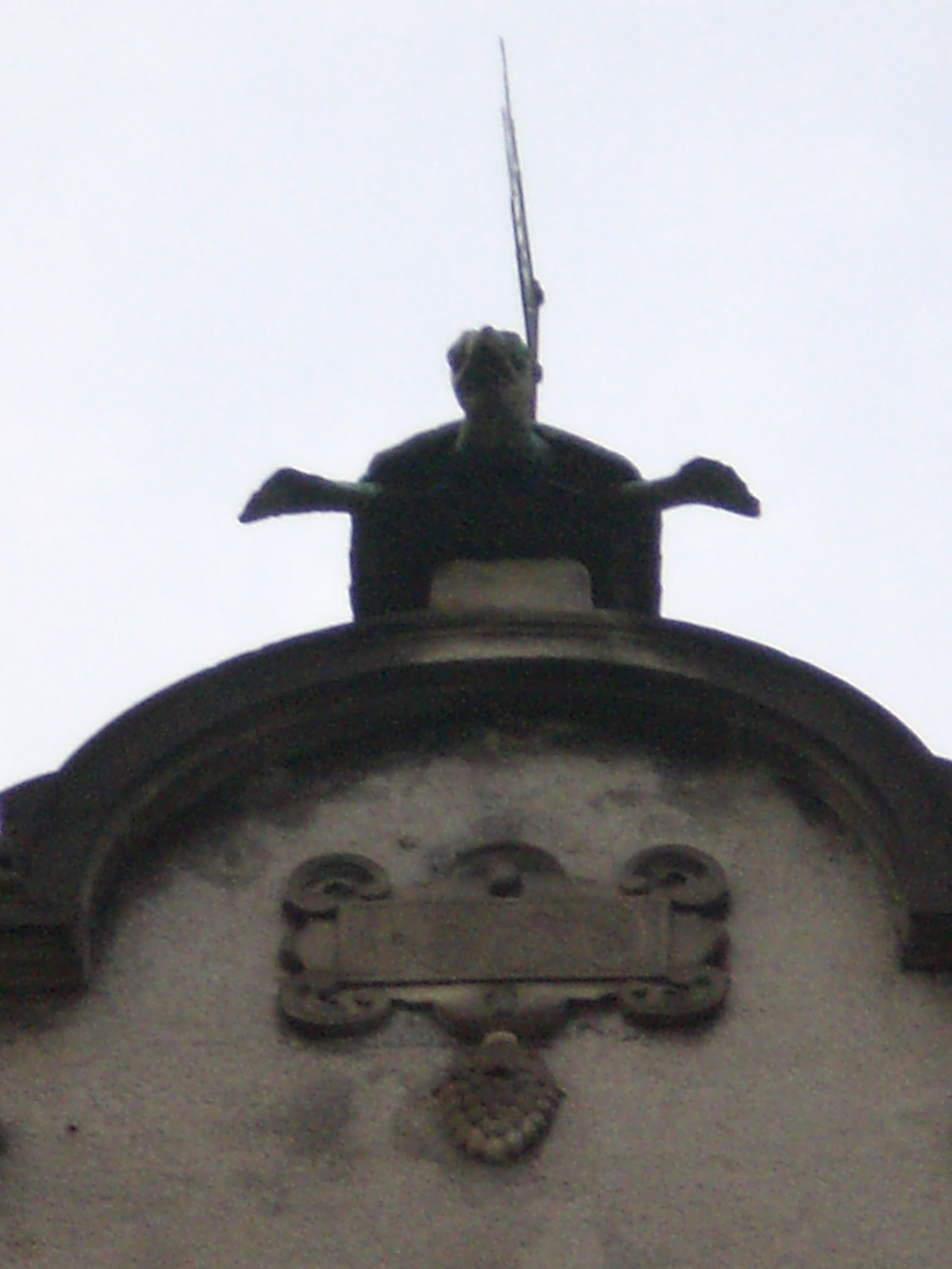 Świętego Ducha Street in Gdańsk